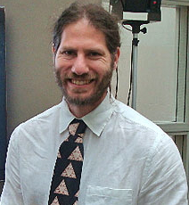 Jason Behrstock, associate professor at Lehman College, CUNY